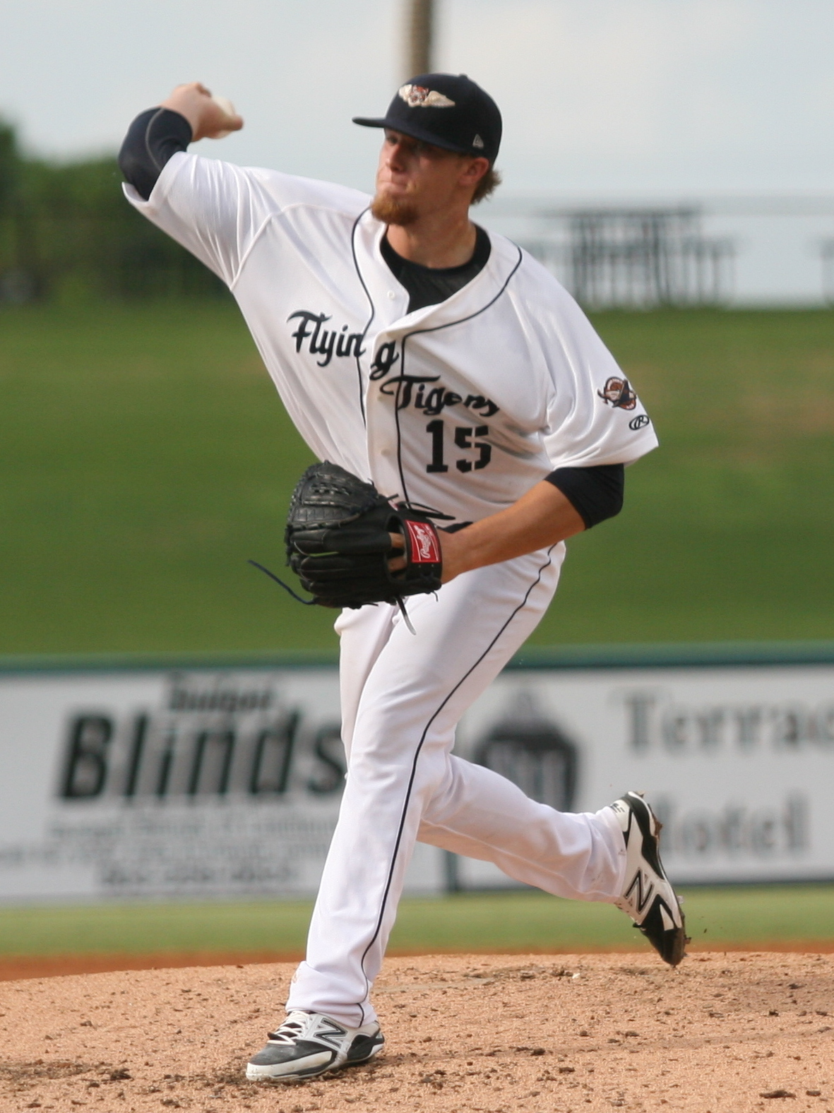 Jake Thompson pitching for the Lakeland Flying Tigers in 2014.